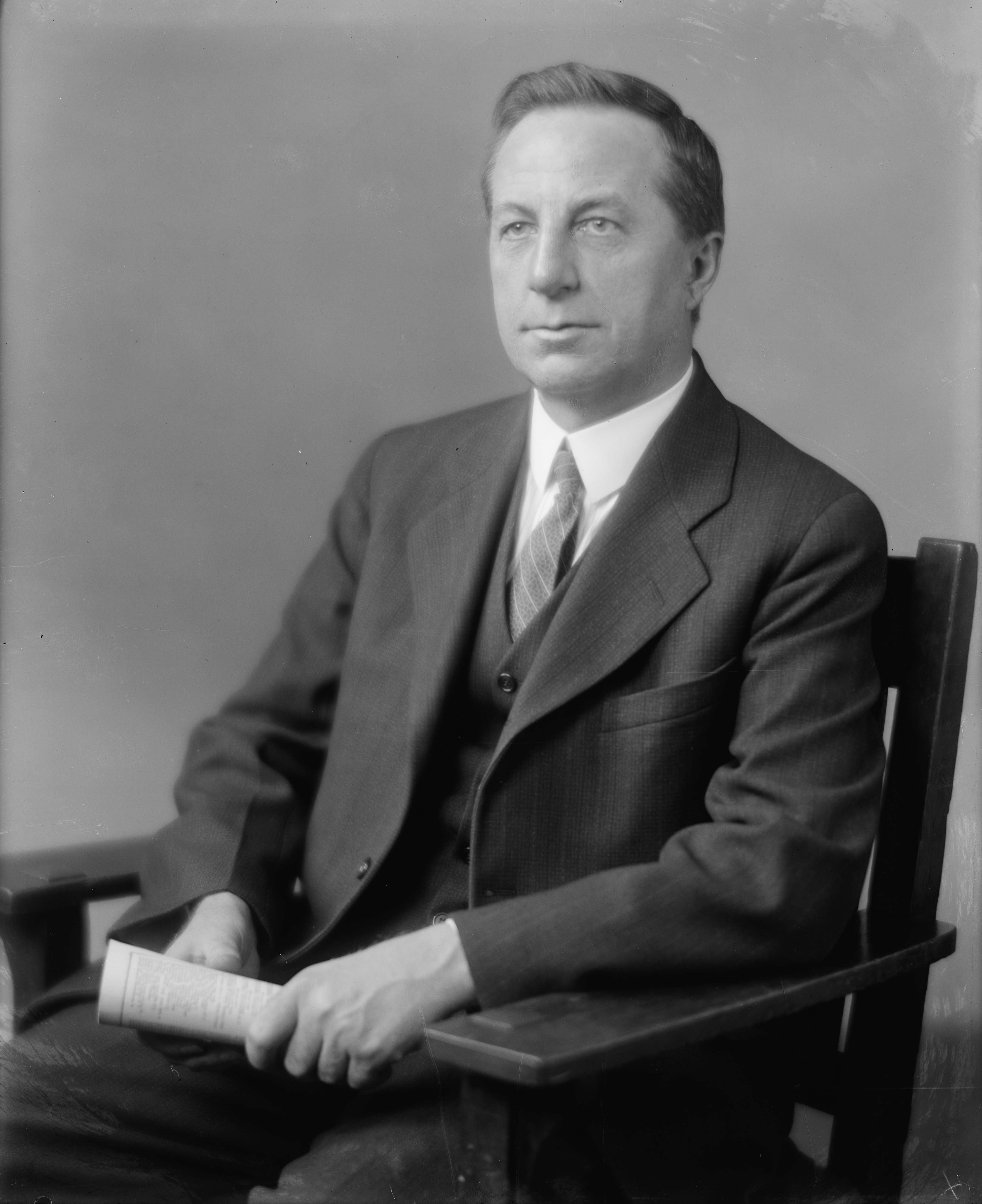 Title: BASSLER, RAY. DOCTOR Abstract/medium: 1 negative : glass ; 8 x 10 in. or smaller